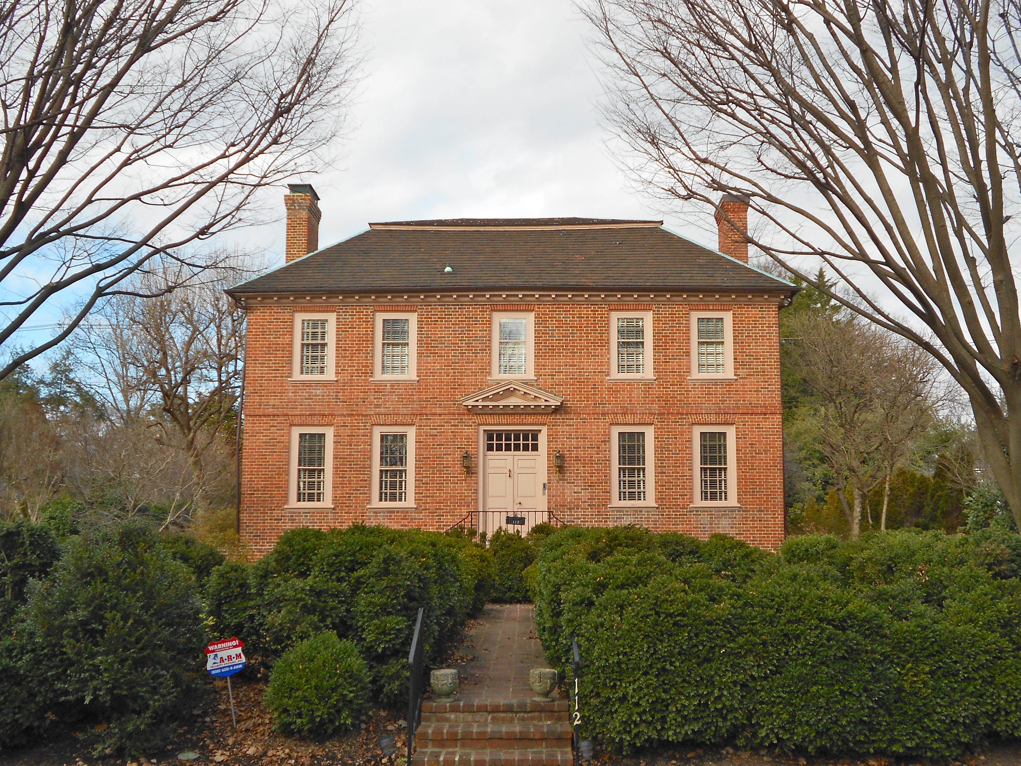 House in the Greater Homeland Historic District listed on the NRHP on December 28, 2001. The historic district is roughly bounded by Charles St. Homeland Ave., York Rd., and Melrose Ave.